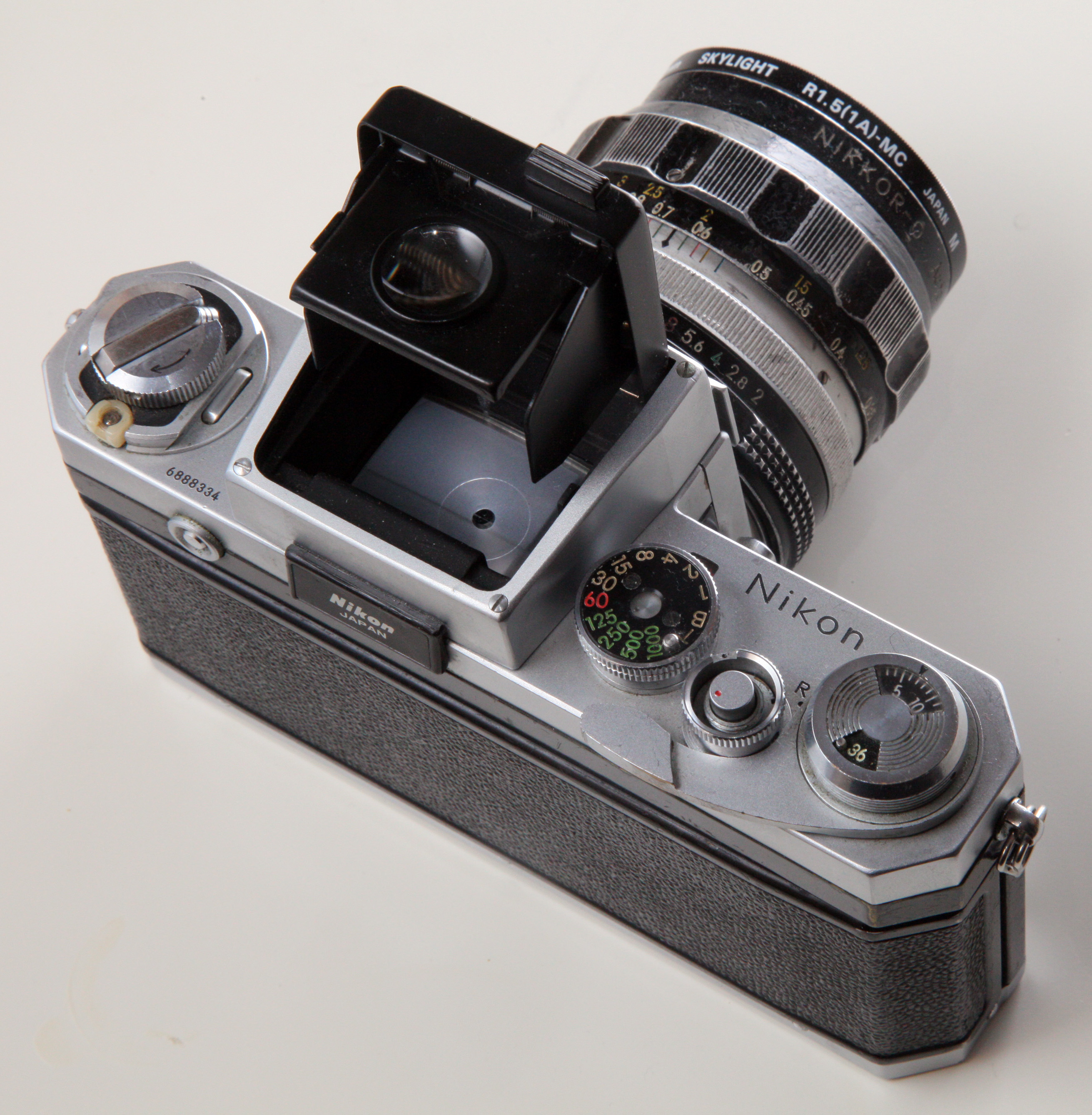 Nikon F with waist level finder type II.